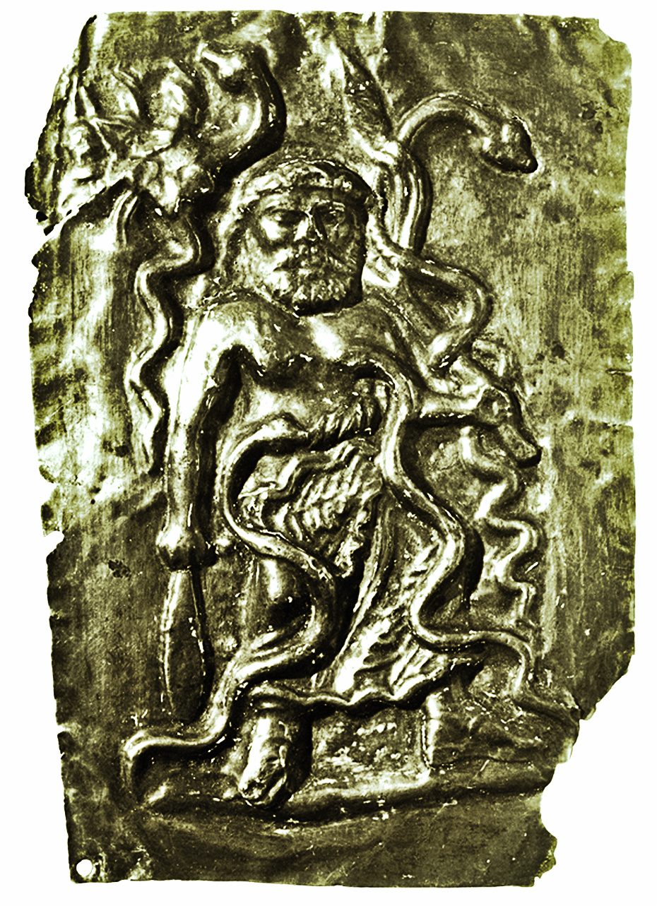 Sabasius_Belantash_silver